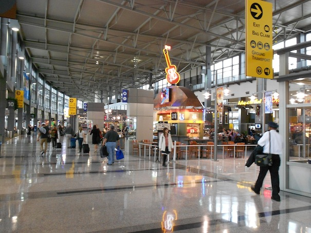 AUS Airport